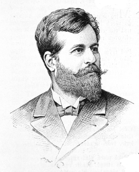 Portrait of Richard Jahn (1840-1918), Czech technician and industrialist, board member of Anniversary Exhibition in Prague 1891